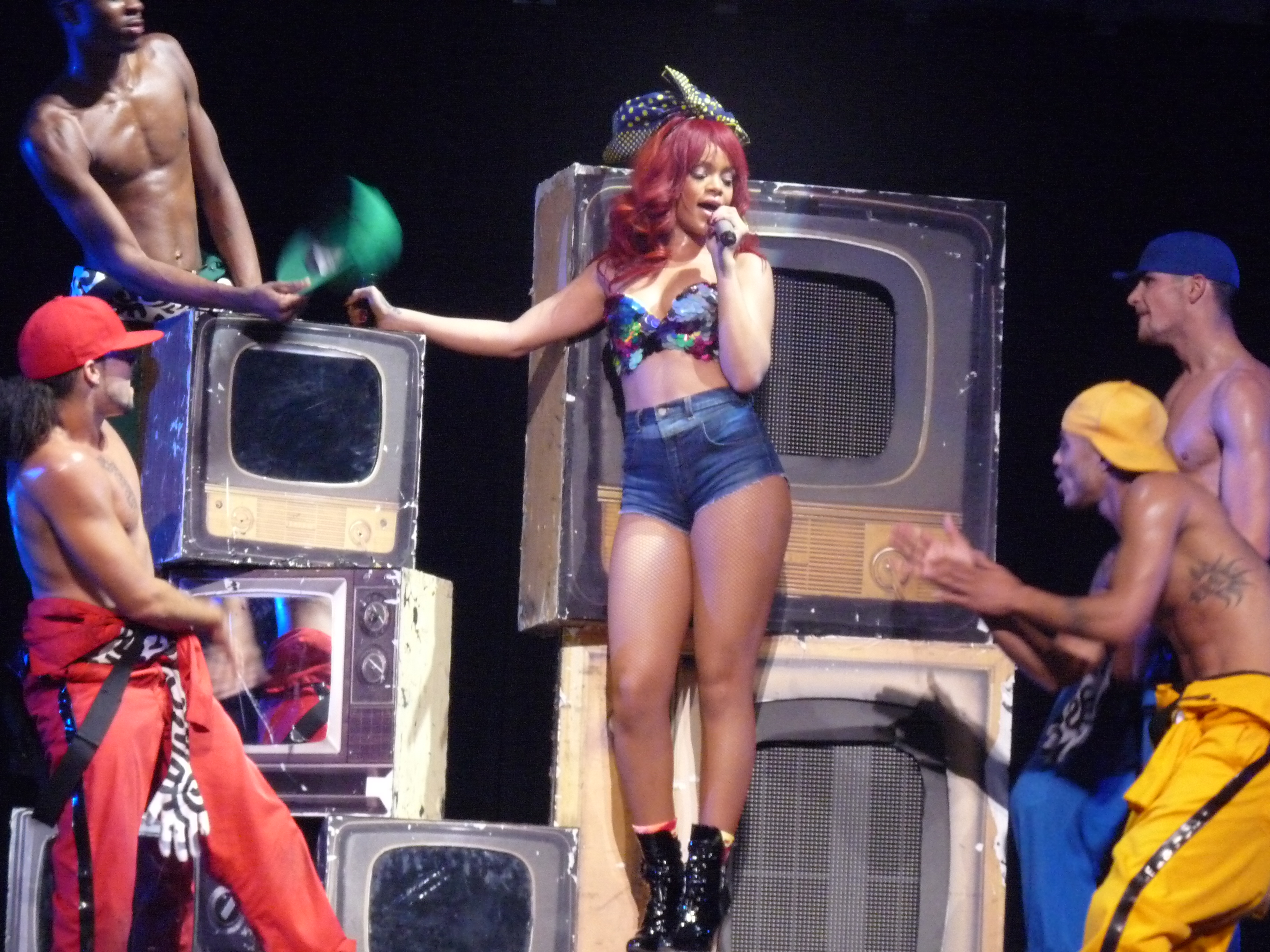 Rihanna live at Bankatlantic Center, Sunrise, Florida, on her tour The LOUD Tour. 14th July 2011